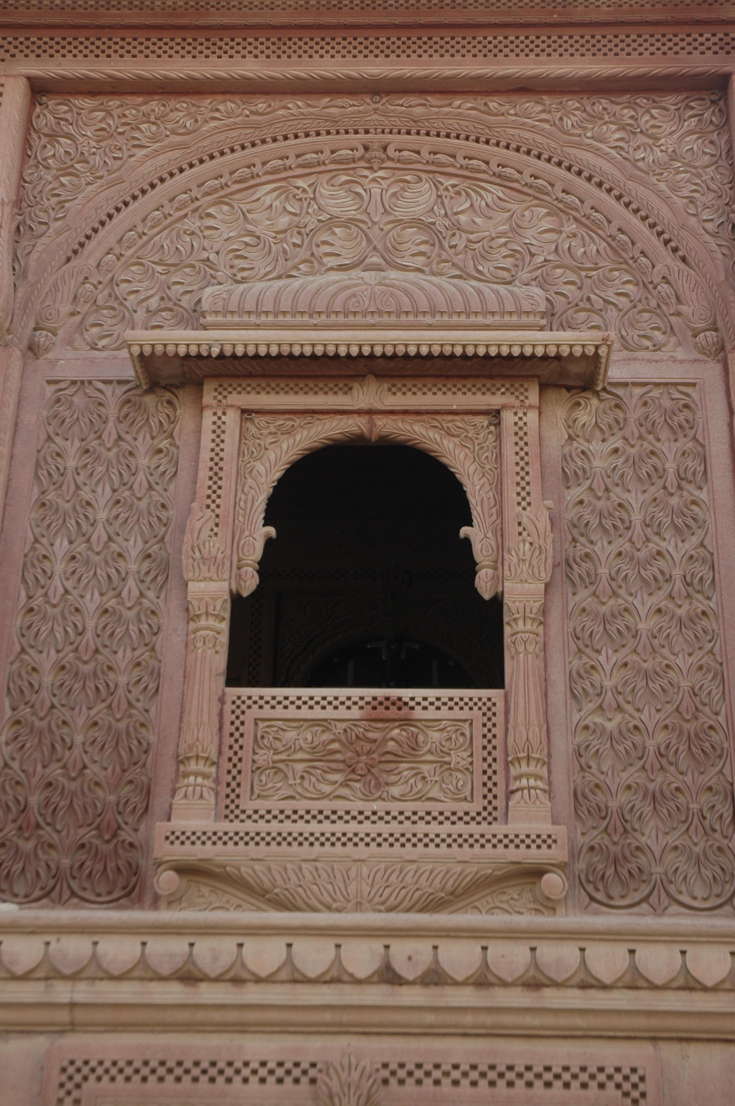 a nice quality of architecture it is a type of window.